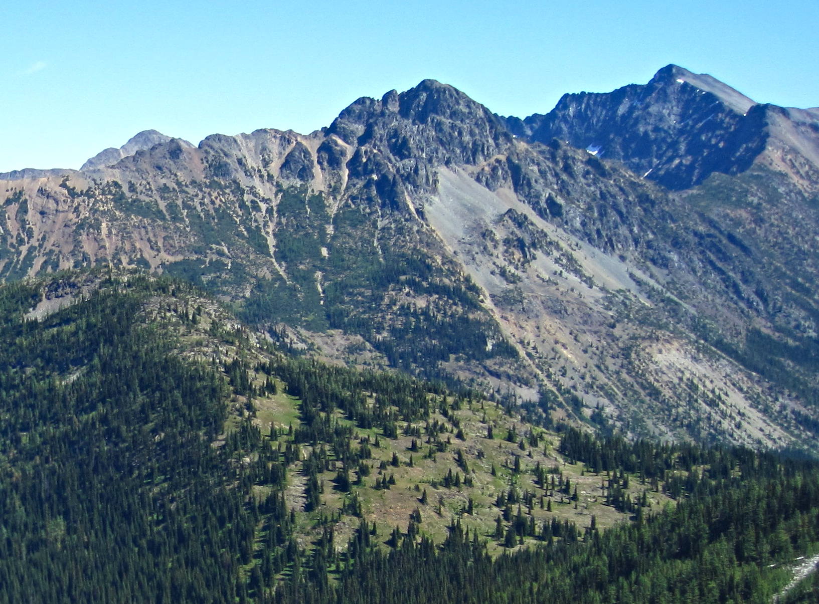 Devils Peak from the road up to the Slate Peak lookout